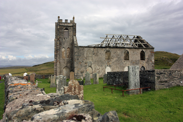 Ruined church, Kilchoman Suffice to say, this is no longer used for worship.